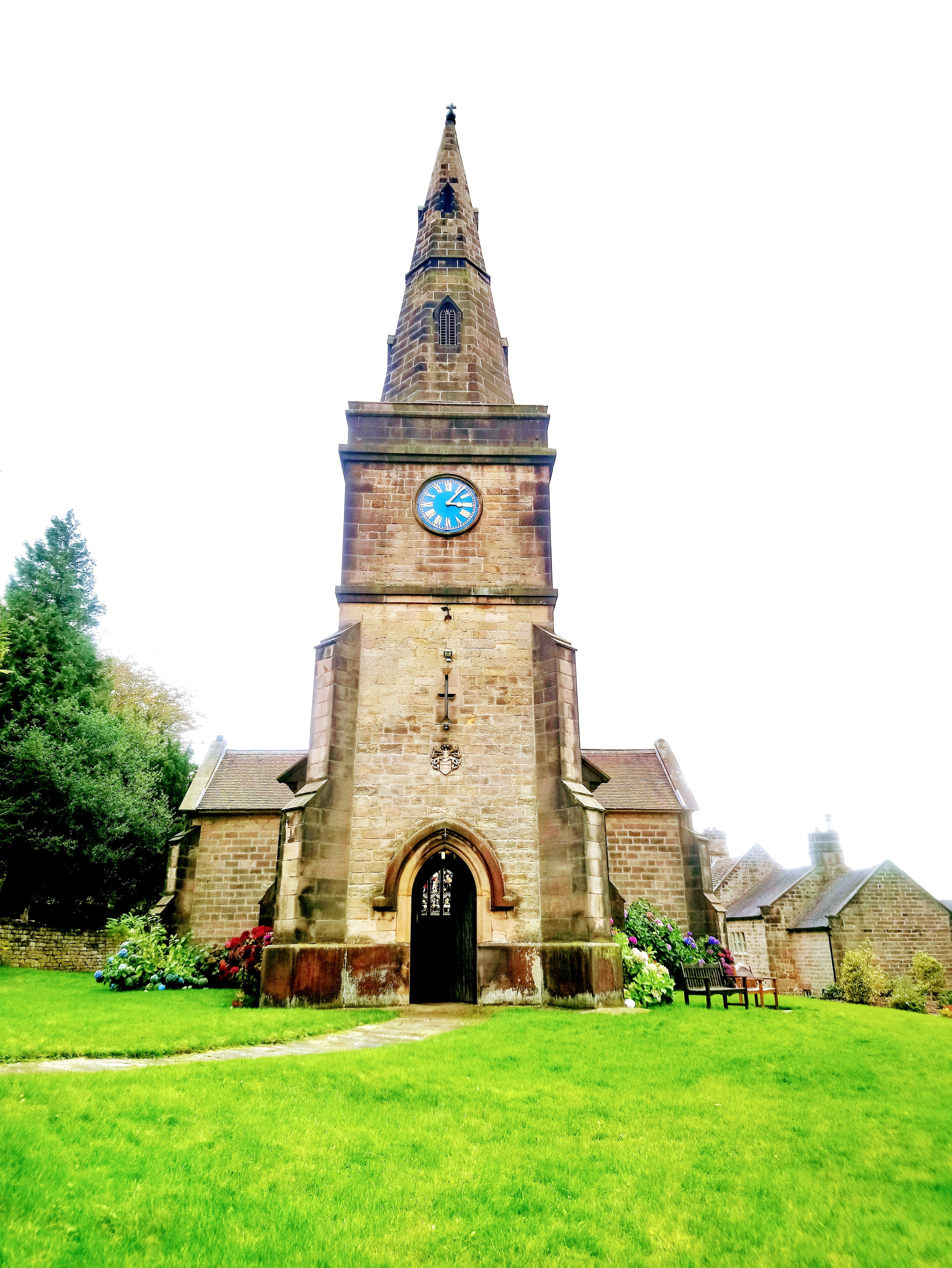 Holy Trinity Church, Stanton In Peak Photo Taken: 17/10/19 Holy Trinity Church, Stanton-in-Peak is a Grade II listed parish church in the Church of England in Stanton in Peak, Derbyshire